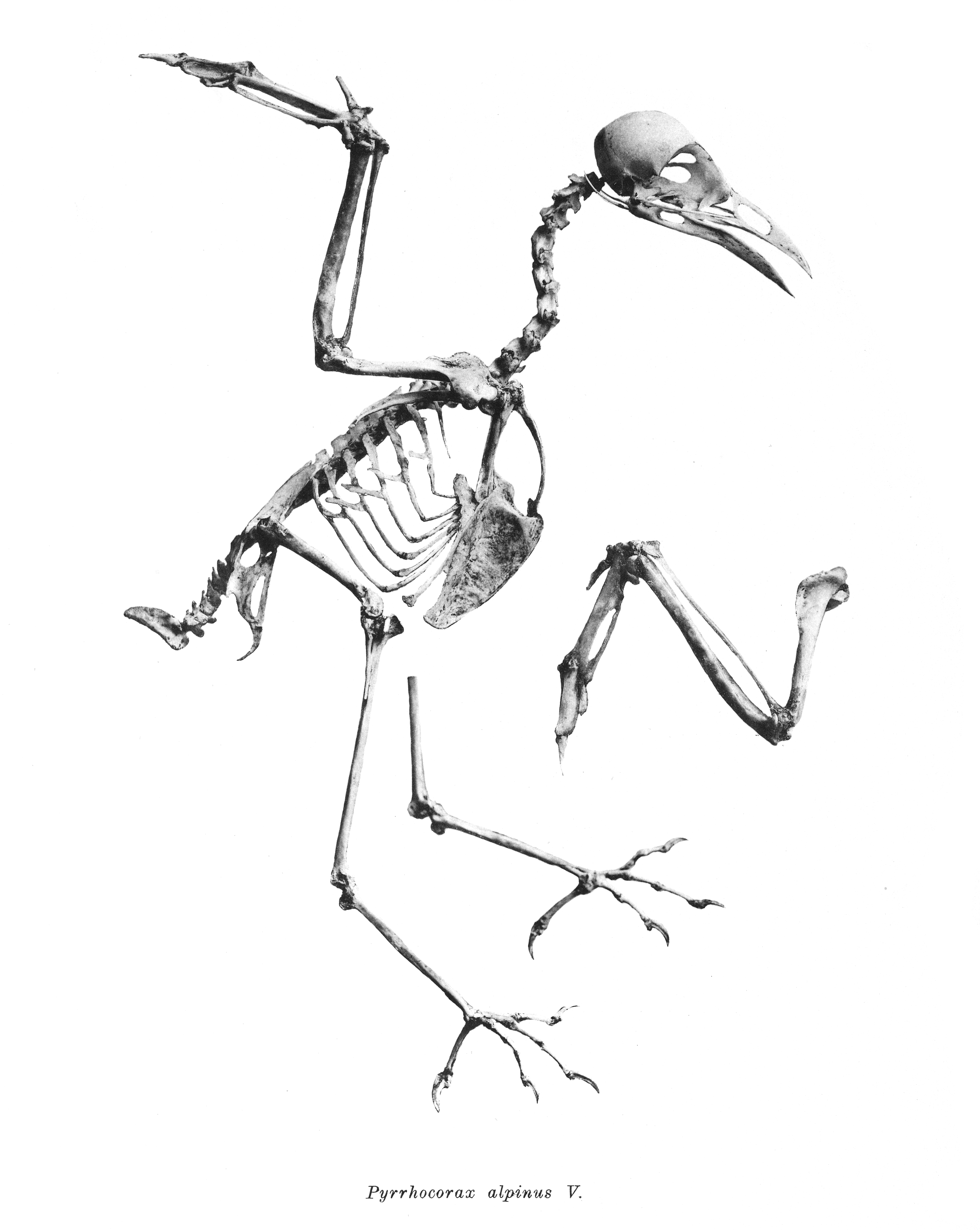 Pyrrhocorax alpinus